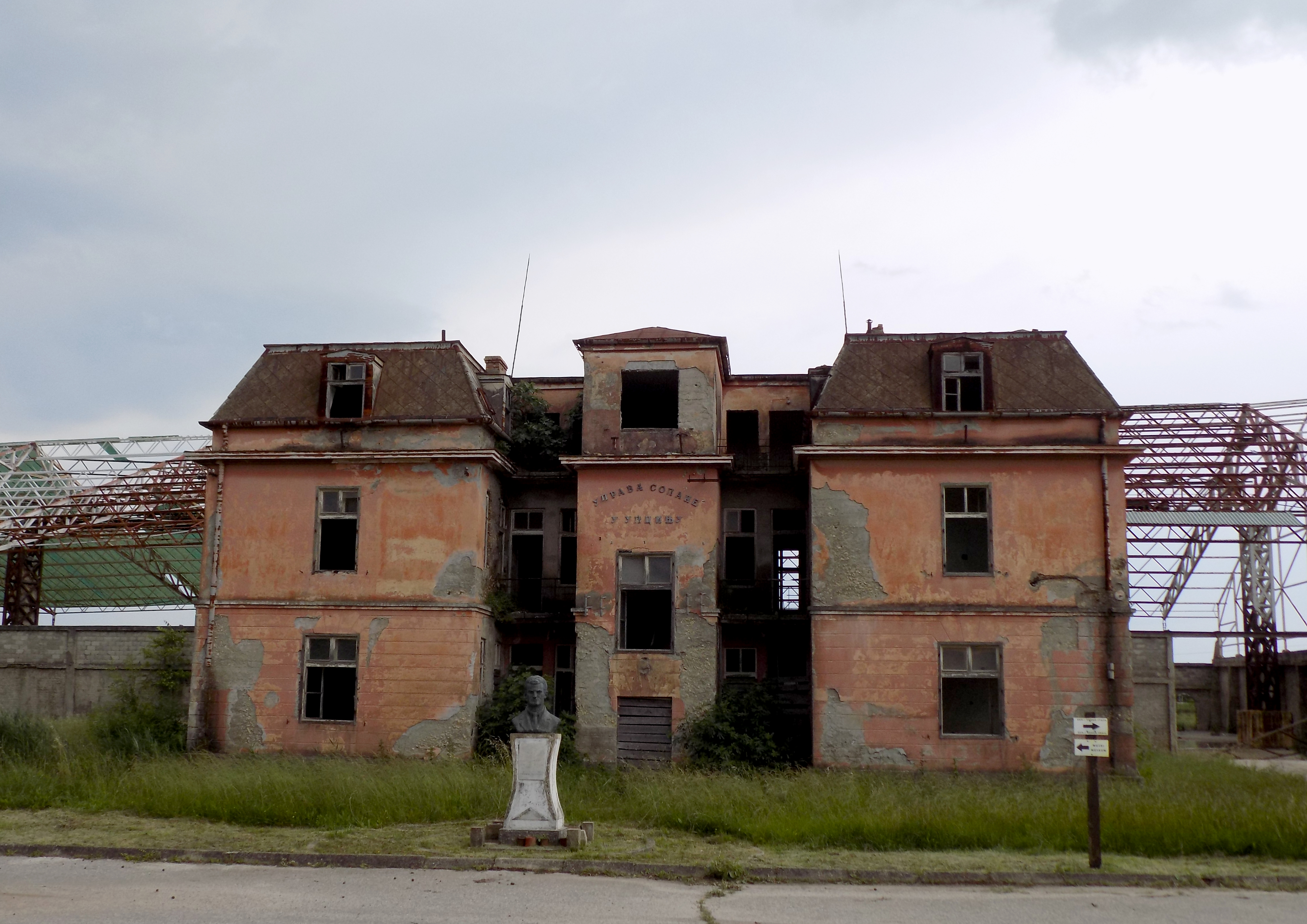 Ulcinj Salinas, important bird area - old administrative building of the former "Bajo Sekulić" salt works